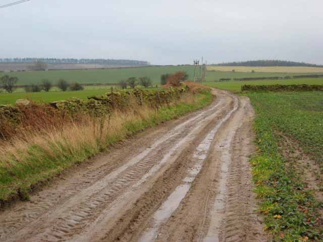 Dere Street, near Esh Winning. Source says "Dere Street is a Roman Road which ran from York to the Firth of Forth. Link In Yorkshire, it is mainly followed by the A1, in Northumberland the A68, but through most of County Durham, it is today either a minor way or just a dotted line on the map. At this point, it is just a muddy farm track with the status of public footpath."